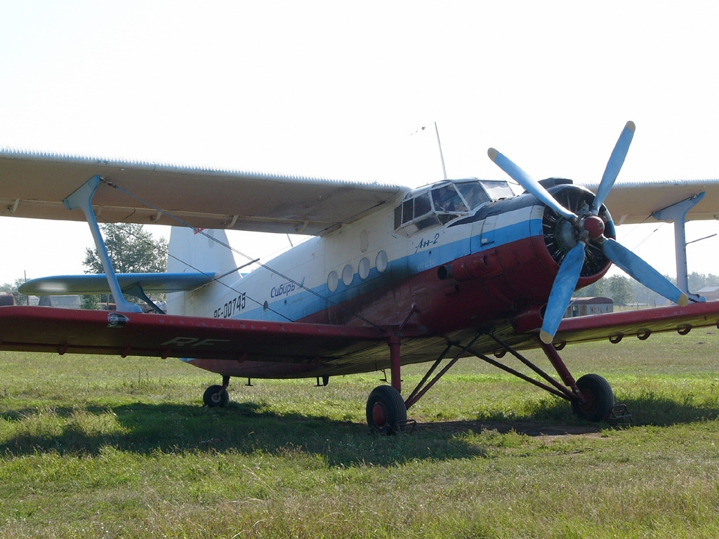 Interesting small logo on the plane - Siberia Airlines!